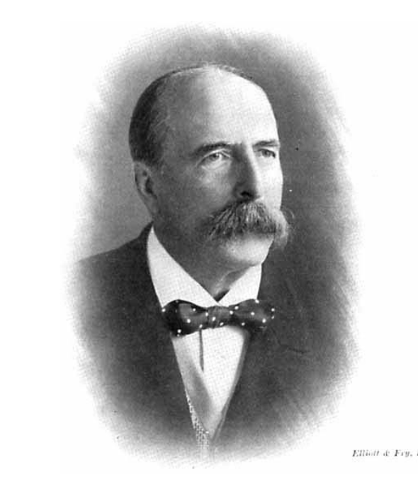 The English surgeon Walter Whitehead (1840-1913). Photograph by Elliott & Fry.